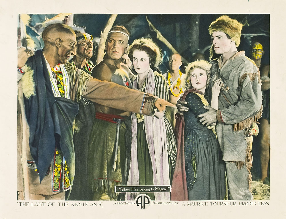 Poster for The Last of the Mohicans (1920) with Wallace Beery, Alan Roscoe, Barbara Bedford, Lillian Hall, and Harry Lorraine.